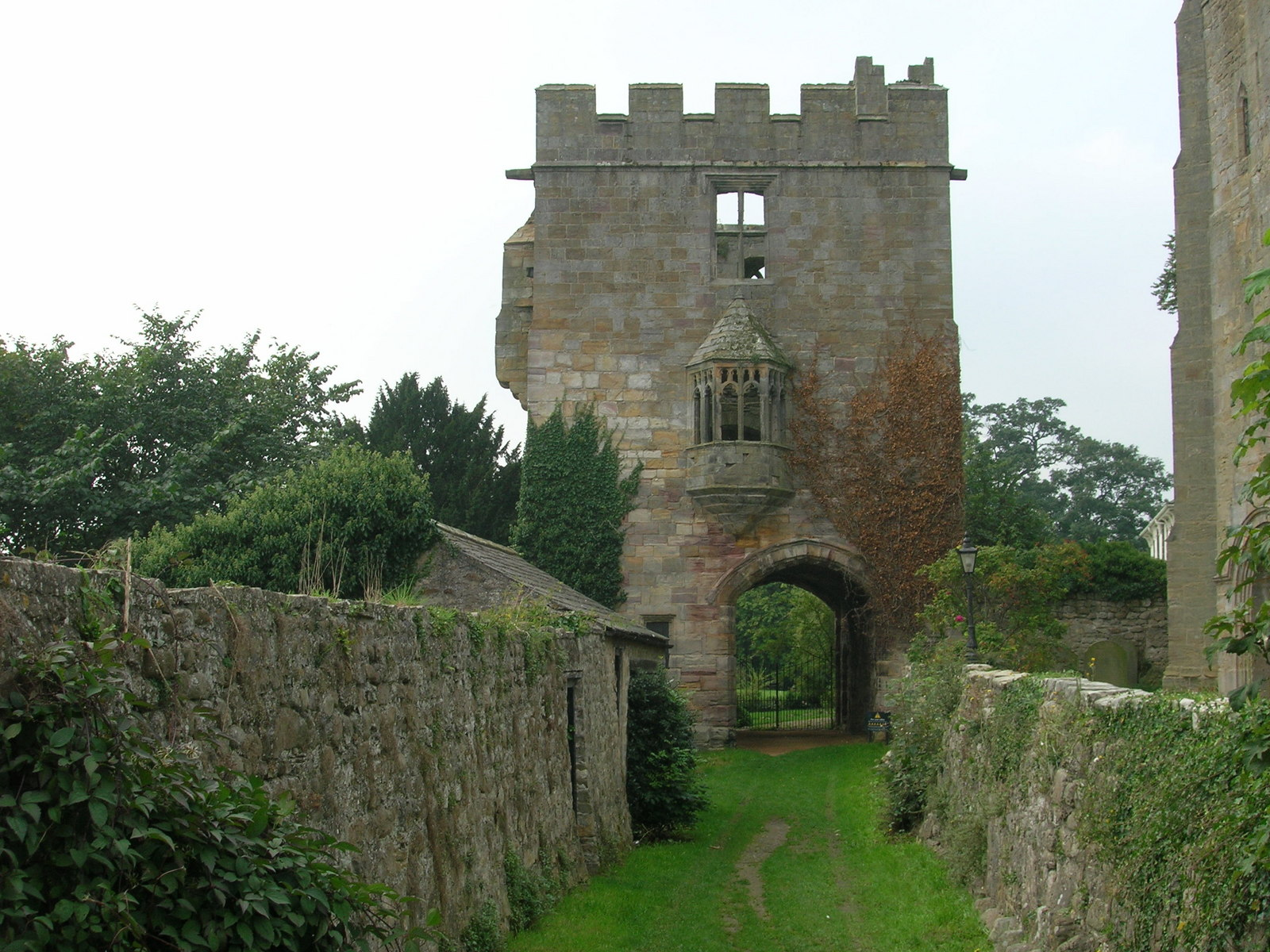 Marmion Tower 15th century gatehouse which belonged to the now vanished manor house formerly home to the Marmion family